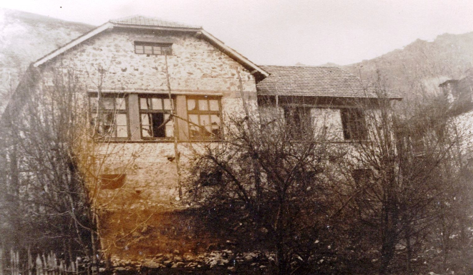 The new school building in the village of Gorno Divjaci, Kruševo Municipality, before completion. Photo taken in the month of April 1948 This media file is produced by Wikipedian in Residence in Category:Wikipedian in Residence at DARM in 2016.